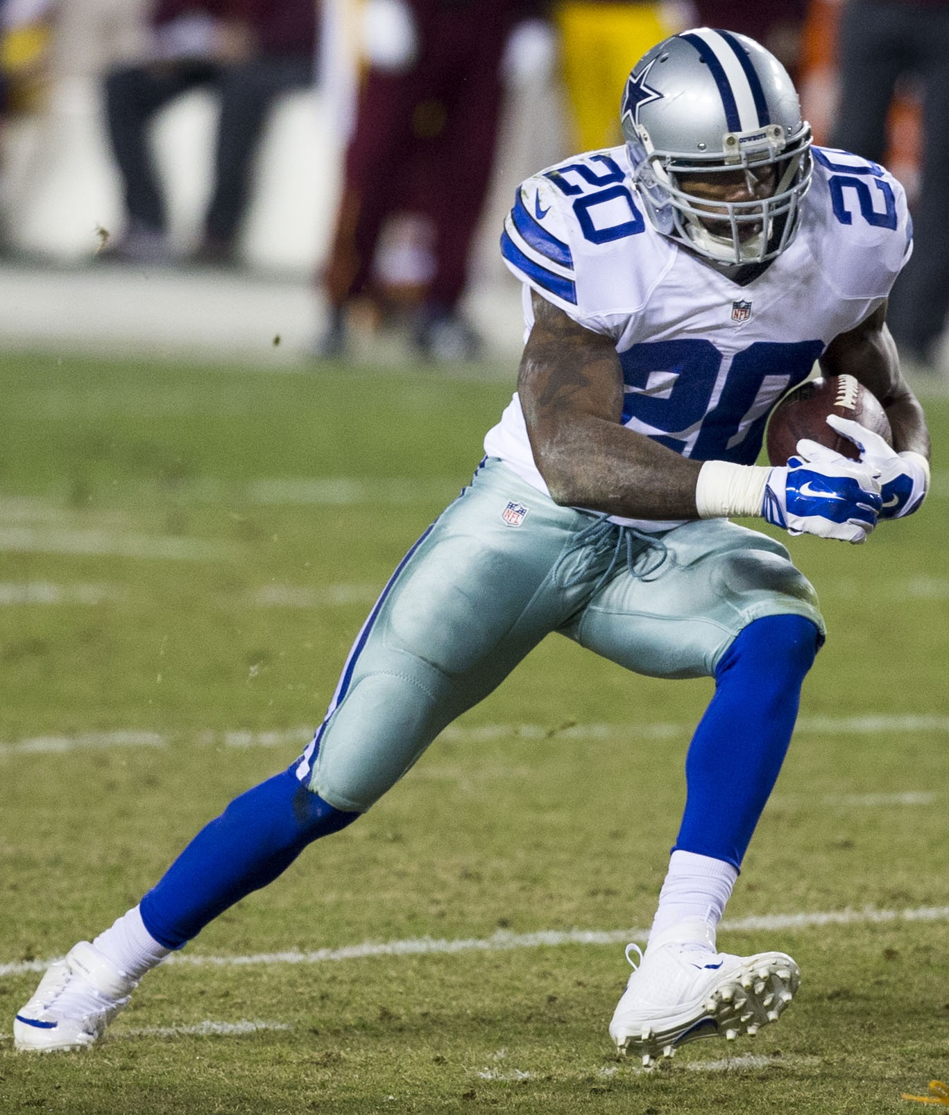 Cowboys at Redskins 12/7/15